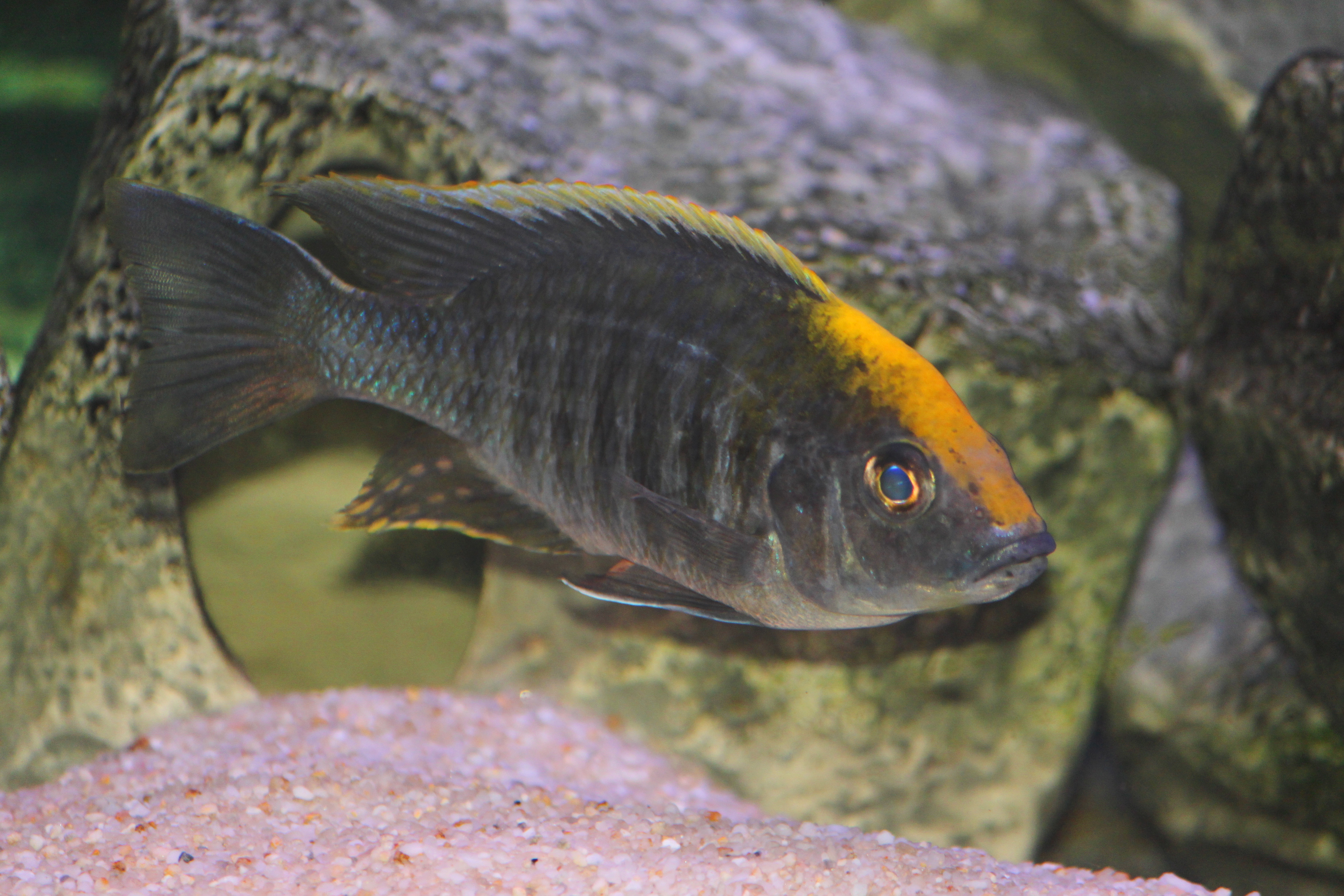 Male Sulphurhead Cichlid of 4+ inches